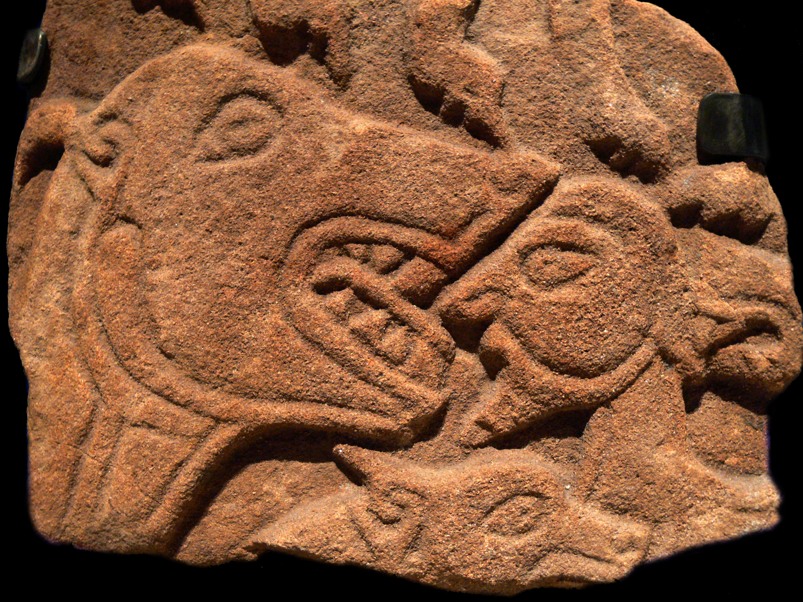 Detail of a stone carved Pictish monument. Photographed at the Exhibition: Celts and Scandinavians, artistic encounters, 7th-12th century, 1st October 2008 - January 12, 2009, Musée National du Moyen-Âge - Thermes et hôtel de Cluny (photography allowed in the museum and the exhibition, with a restriction: no flash). Loaned by the Groam House Museum in Rosemarkie, Scotland